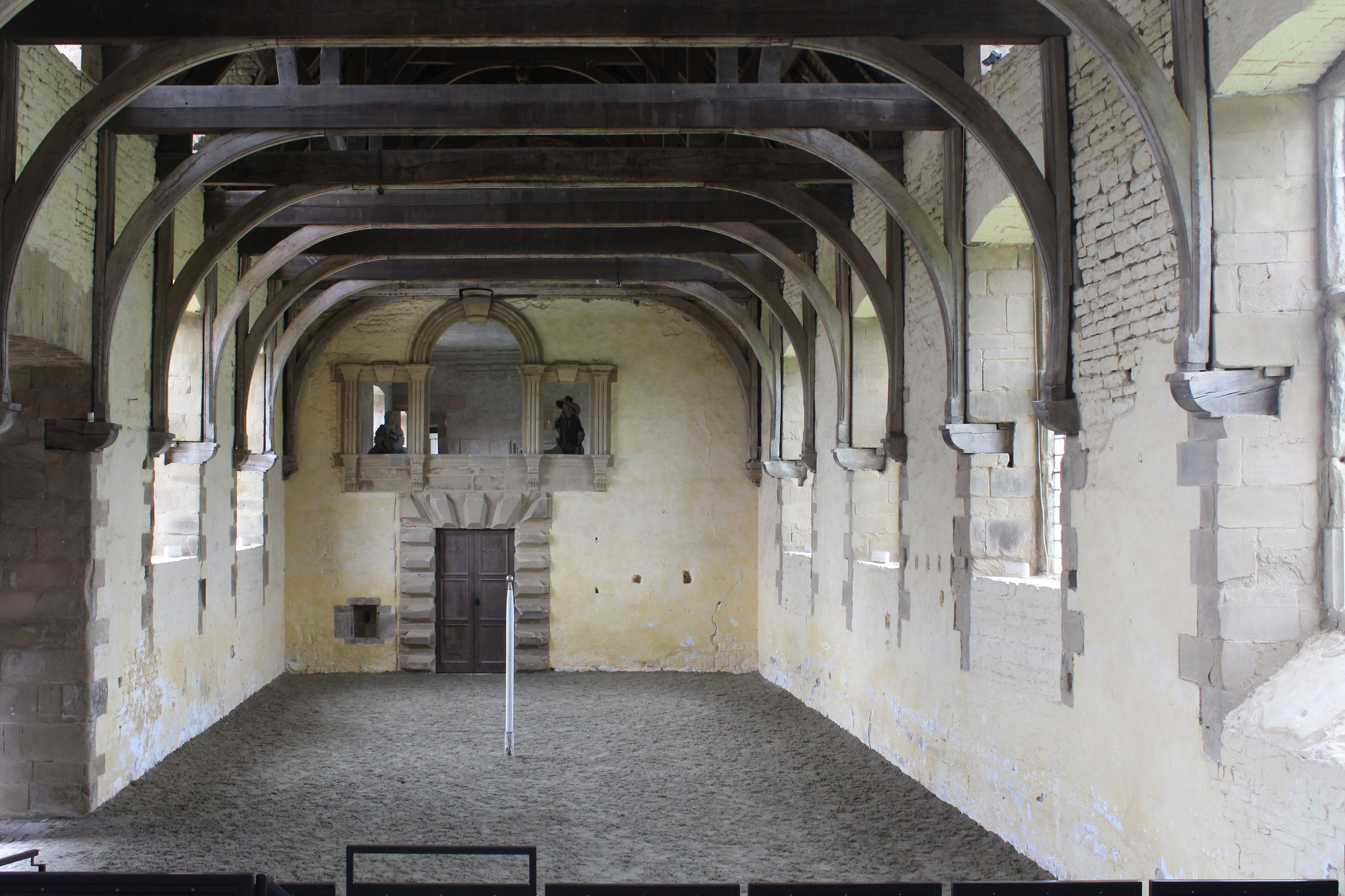 Interior of the Riding House at Bolsover Castle from the viewing terrace. It is a Grade 1 listed building and one of the oldest surviving riding houses in England and was built in the 1660's by William Cavendish, 1st Duke of Newcastle. Cavendish was one of England's earliest exponents of dressage.